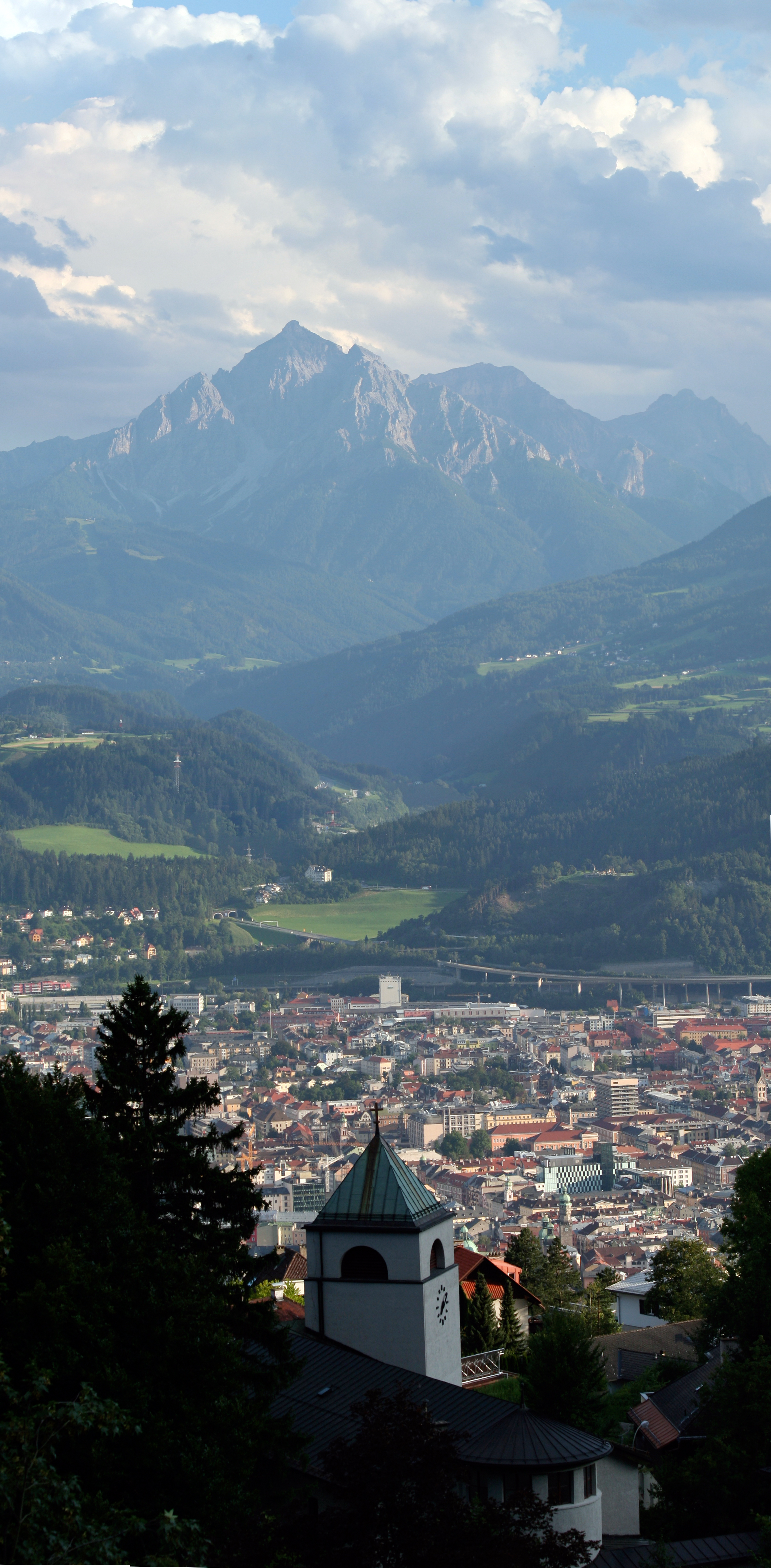 View overlooking Innsbruck.